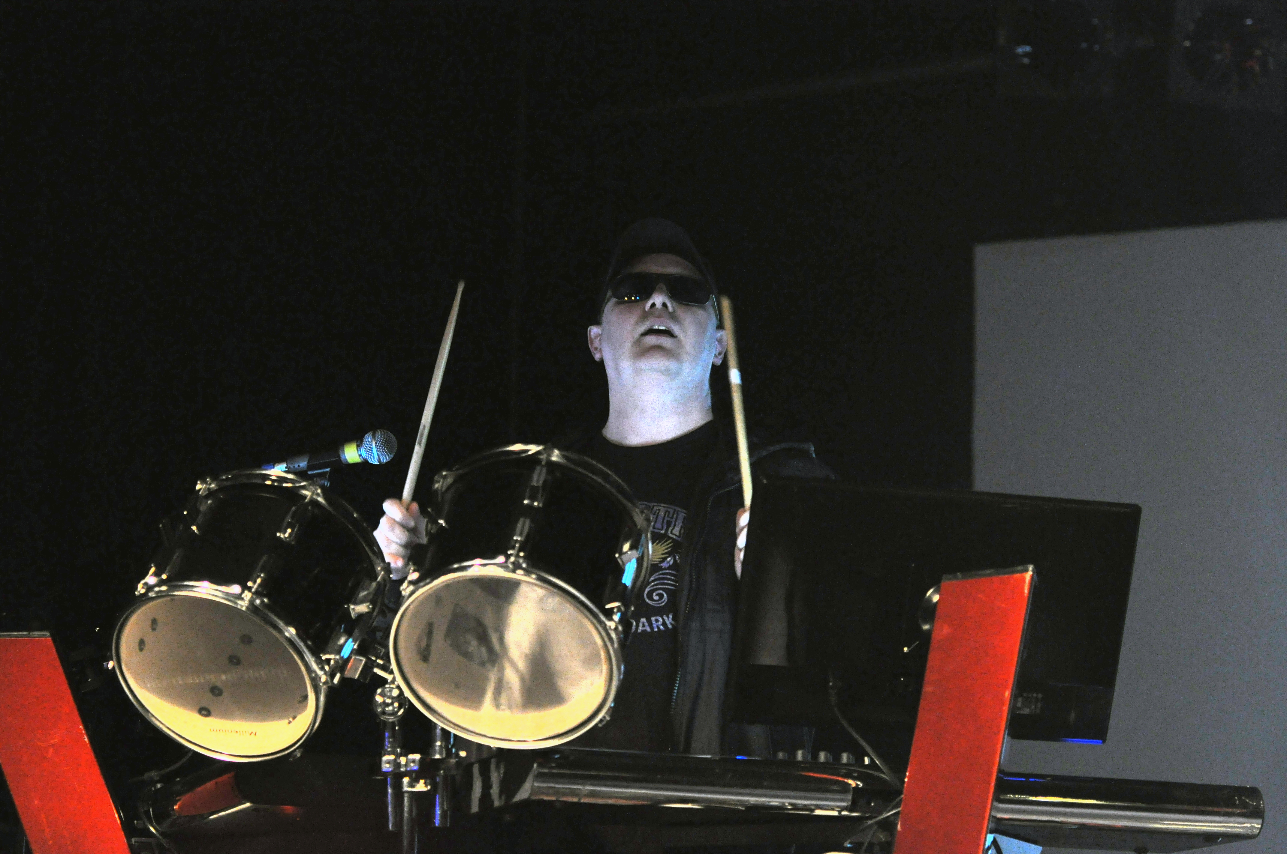 The German Band Melotron at e-tropolis 2013, Berlin